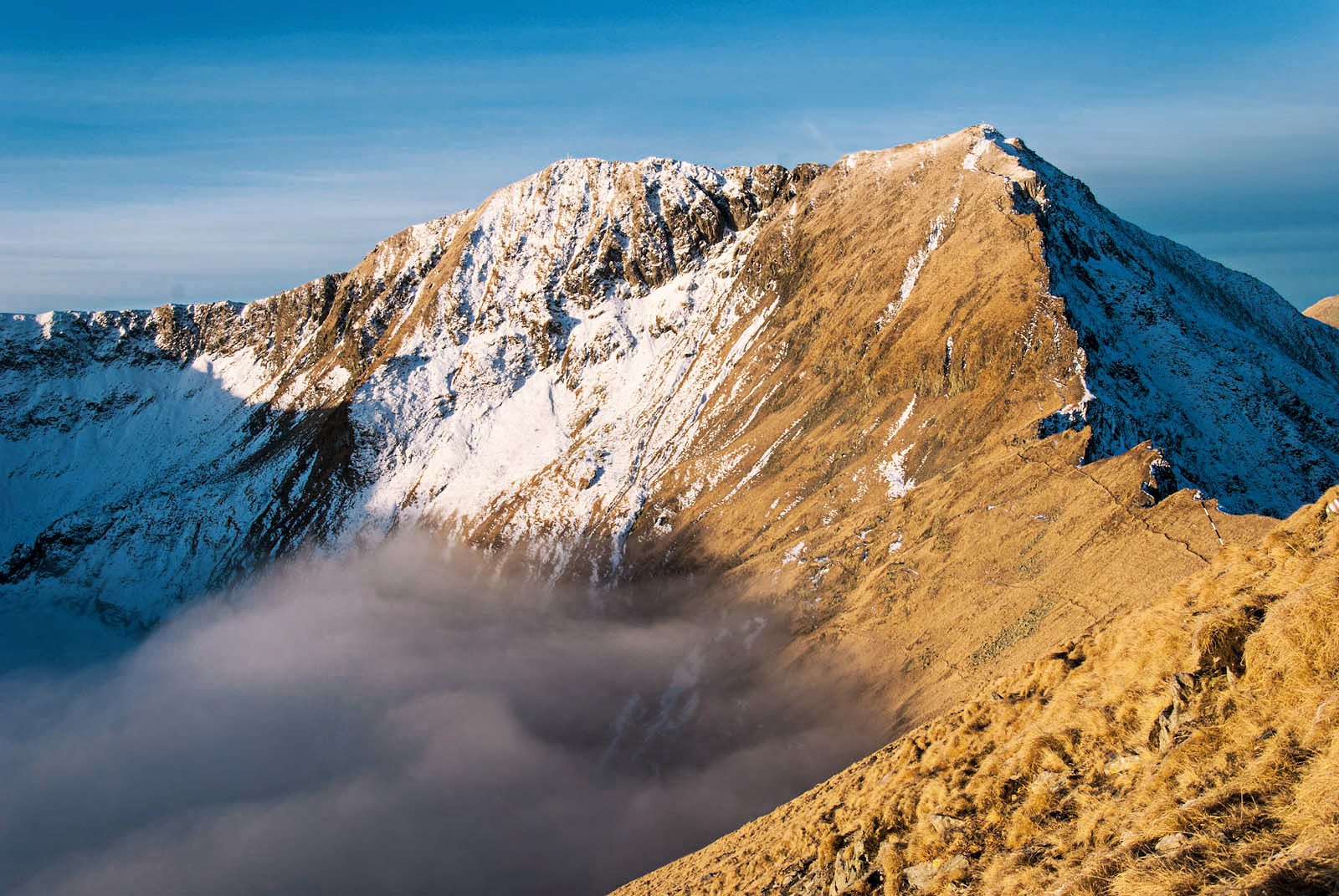 2544 m Moldoveanu Peak - Fagaras Mountains of the Southern Carpathians